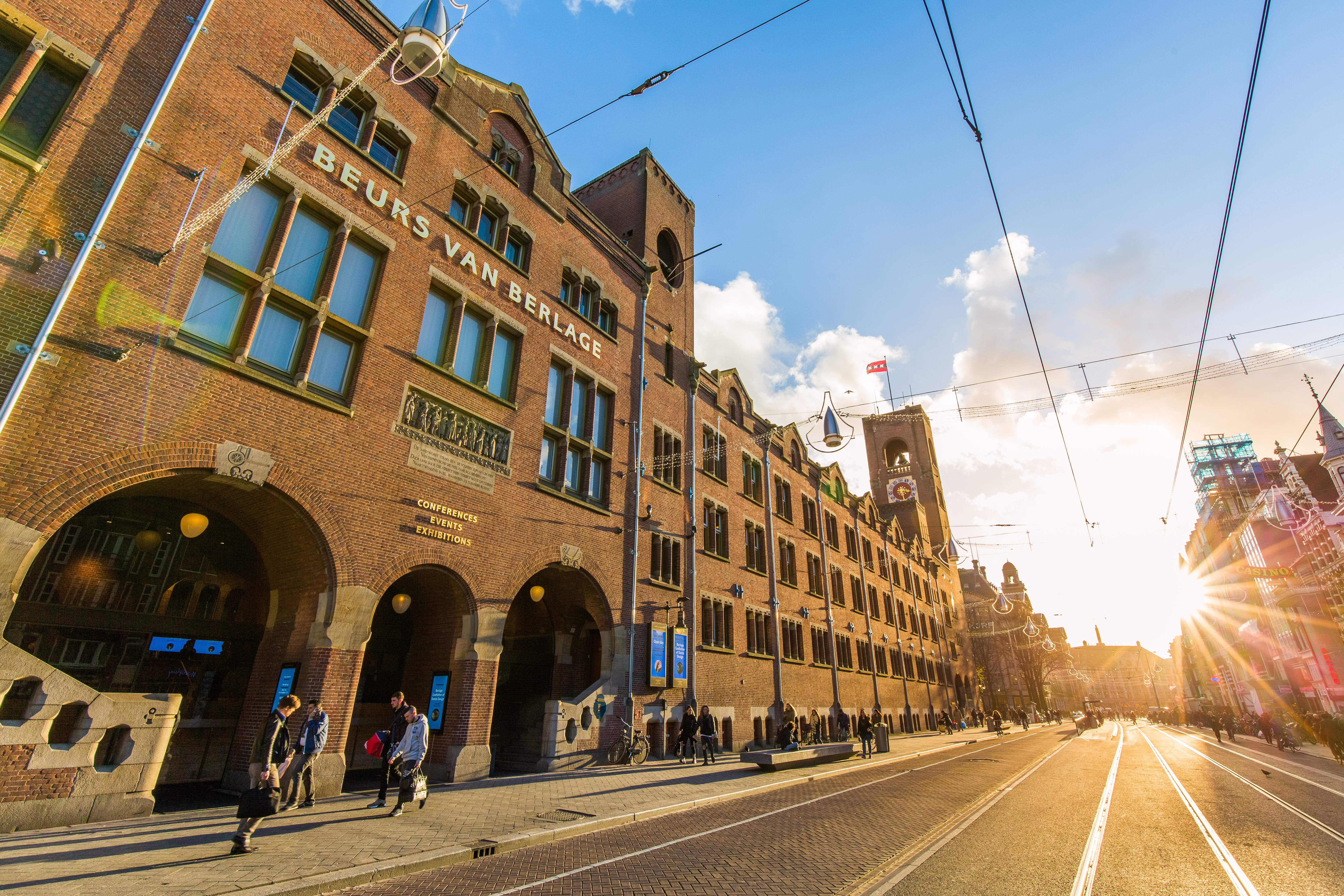 Beurs van Berlage